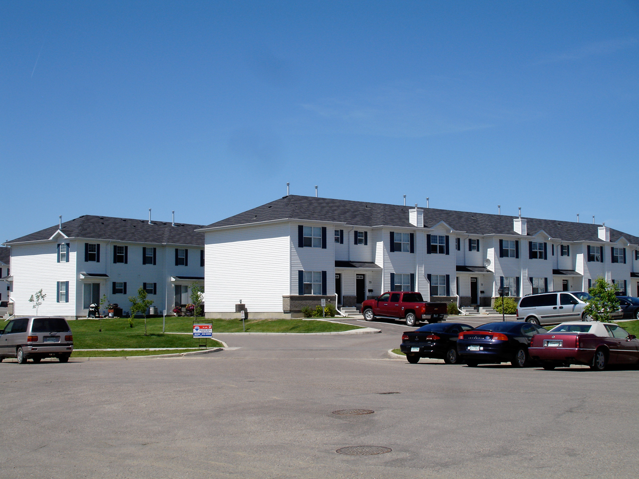 Condominium buildings in the Lakewood Suburban Centre neighbourhood of Saskatoon, Saskatchewan, Canada.